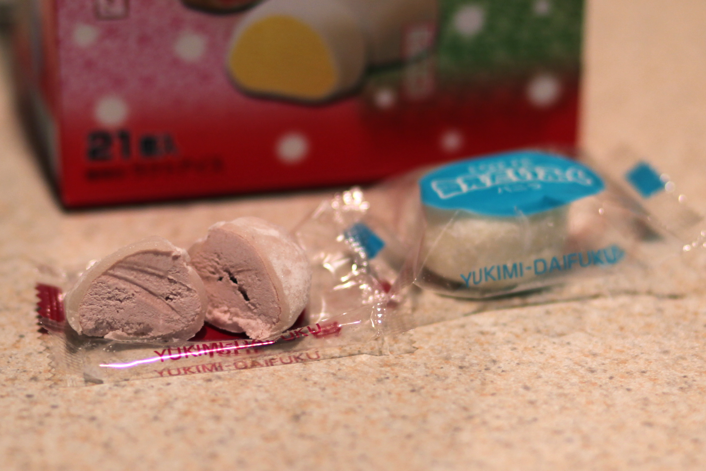 Red bean Yukimi Daifuku sliced open.